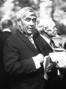 Belgian writer and Nobel laureate Maurice Maeterlinck (1862-1949) at the Société des gens de lettres in 1925.